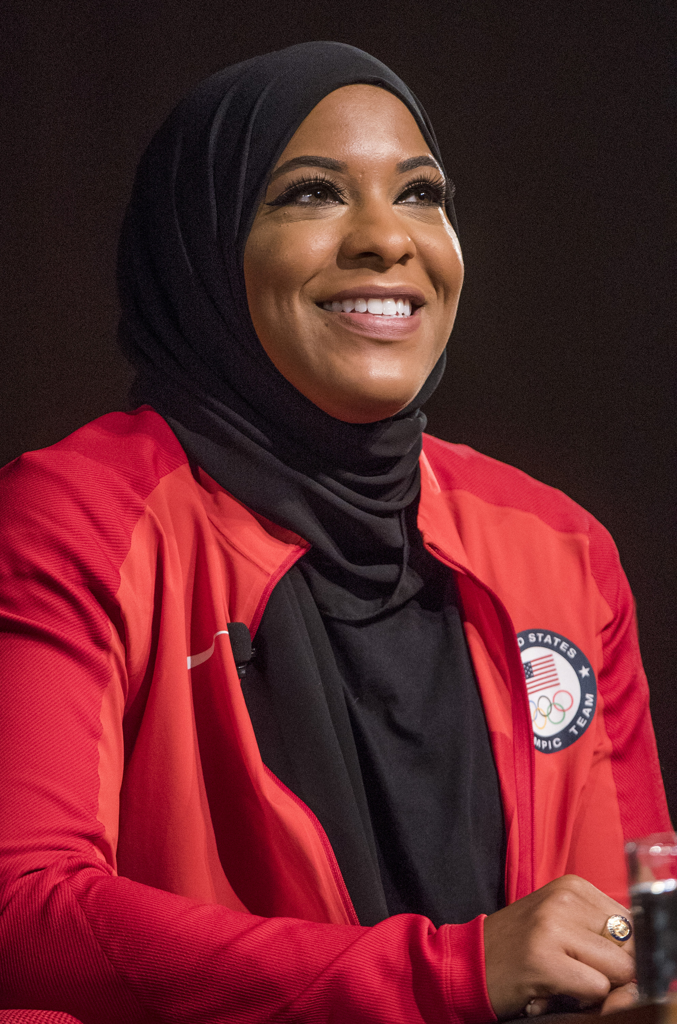 On Tuesday, September 18, 2018, KLRU-TV, Austin PBS' Judy Maggio interviewed U.S. Olympic fencer Ibtihaj Muhammad for an audience of area school children, who posed questions to the bronze medal winner afterwards. The event was tied to the LBJ Library’s special exhibition, Get in the Game: The Fight for Equality in American Sports.